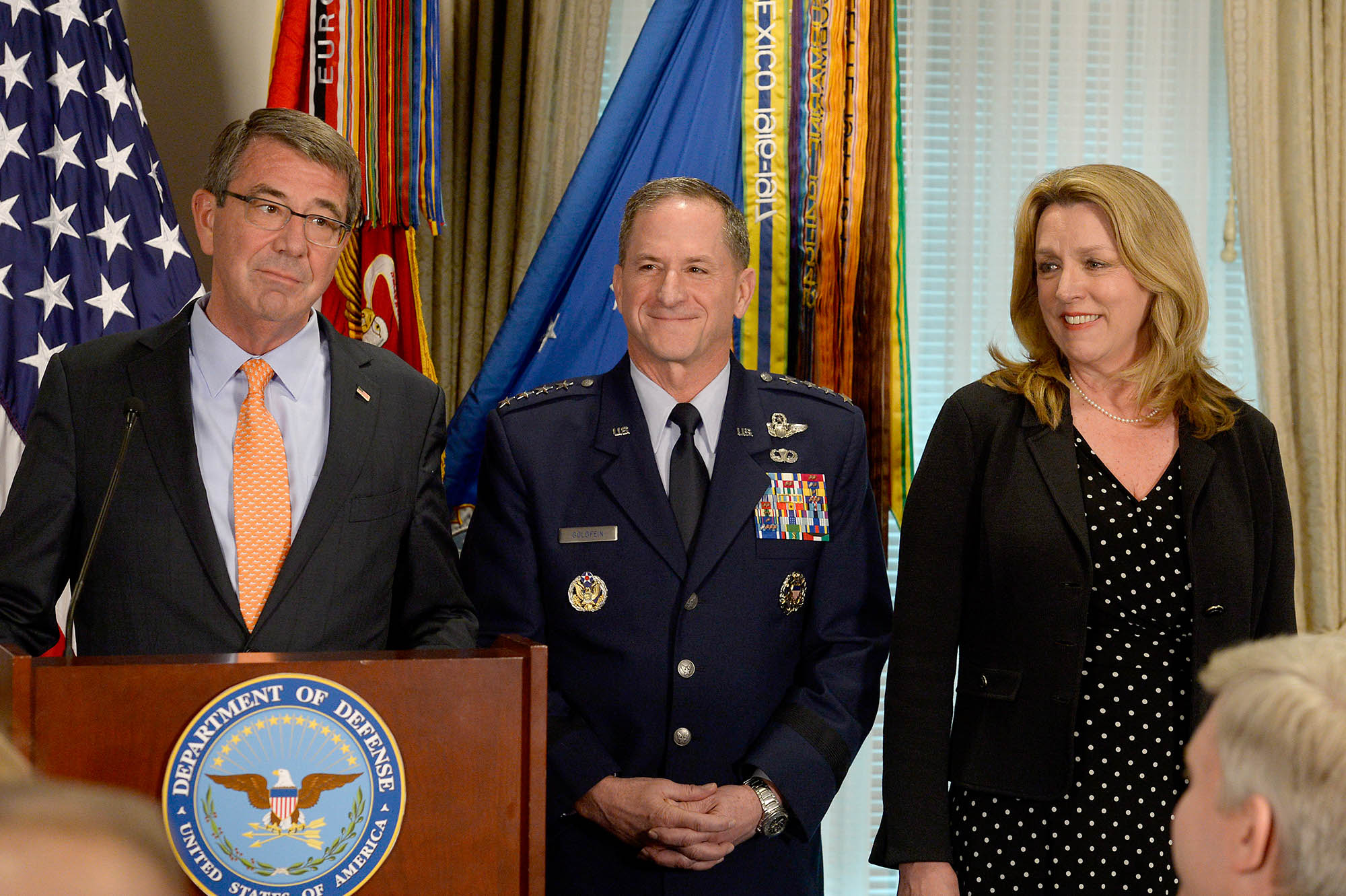 Secretary of Defense Ash Carter briefs the official announcement of Air Force Vice Chief of Staff Gen. David Goldfein, who was nominated to become the 21st Air Force chief of staff, in the Pentagon on April 29, 2016. With them is Secretary of the Air Force Deborah Lee James. (U.S. Air Force photo/Scott M. Ash)